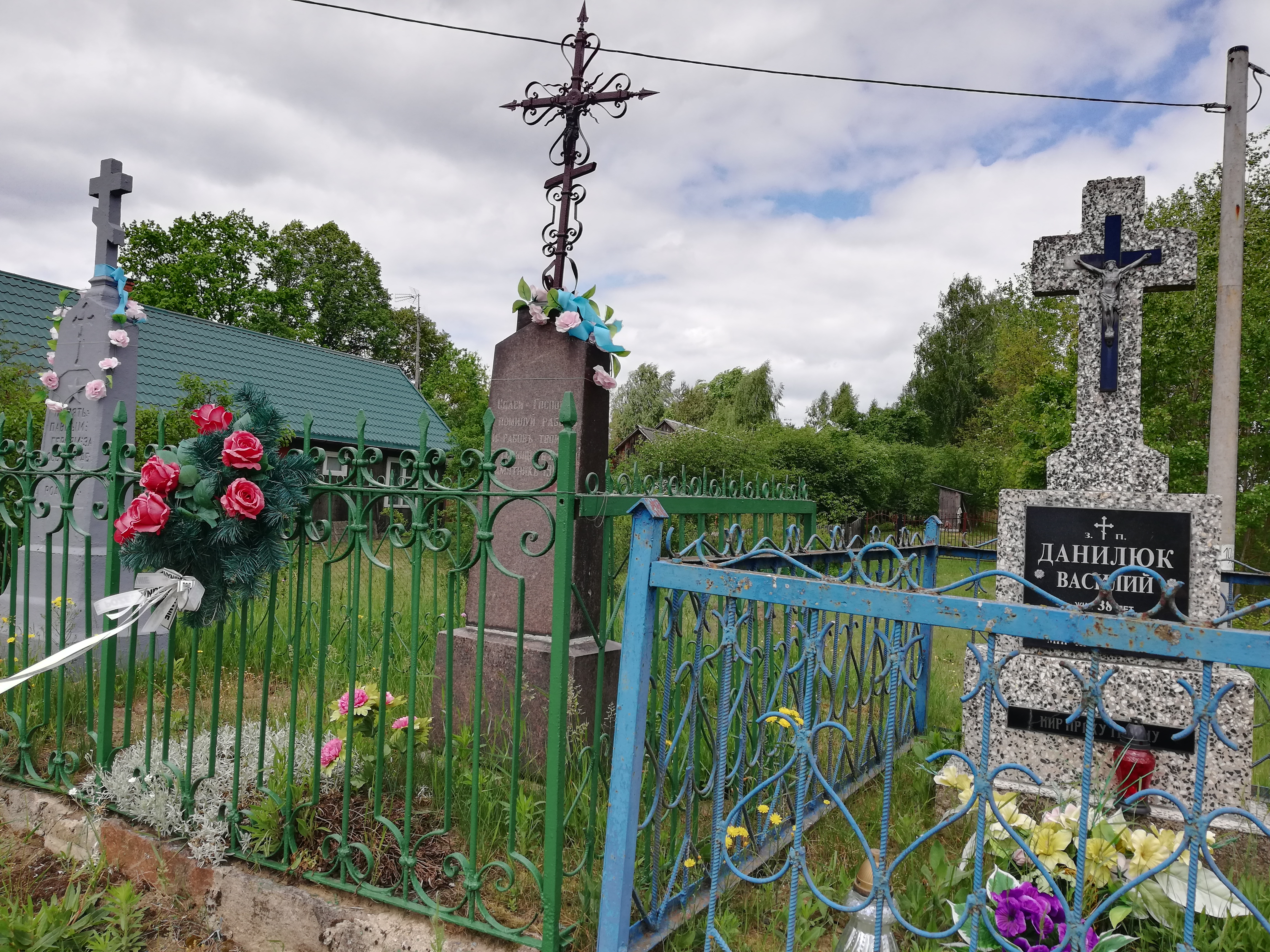 Orthodox wayside cross with cyrillic inscriptions in Ciełuszki village.